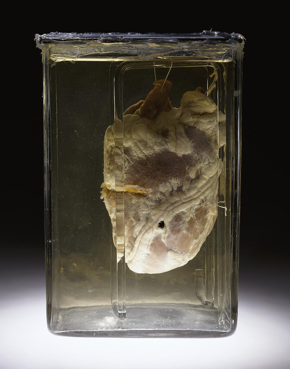 Heart of a 26-year-old man, perforated by a bullet, New York, 1937; Death attributed to homicide.